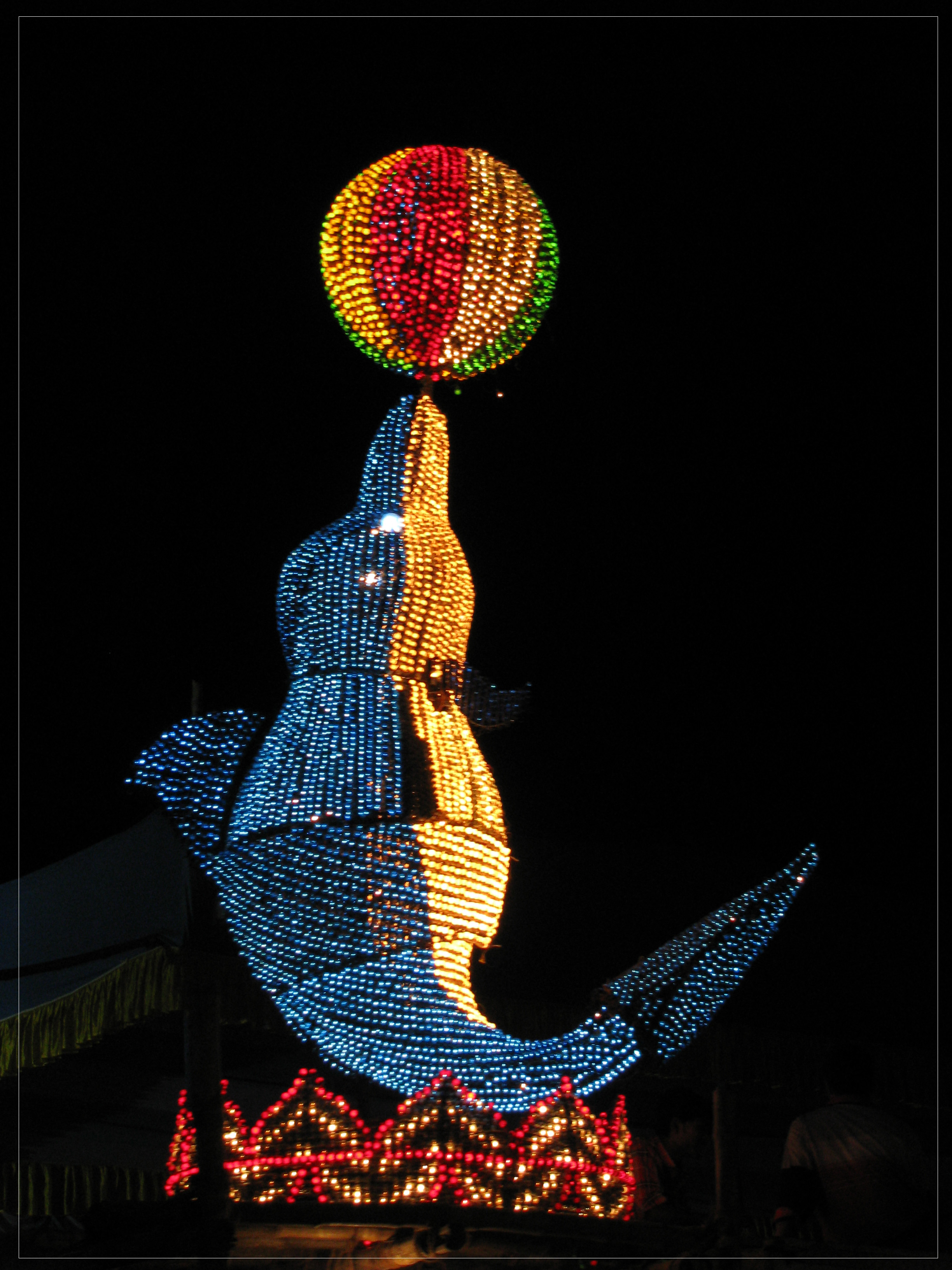 Tableau at Jagaddhatri Puja immersion in Chandannagar. Tableau is a group of models or motionless figures representing a scene from a story or from history.